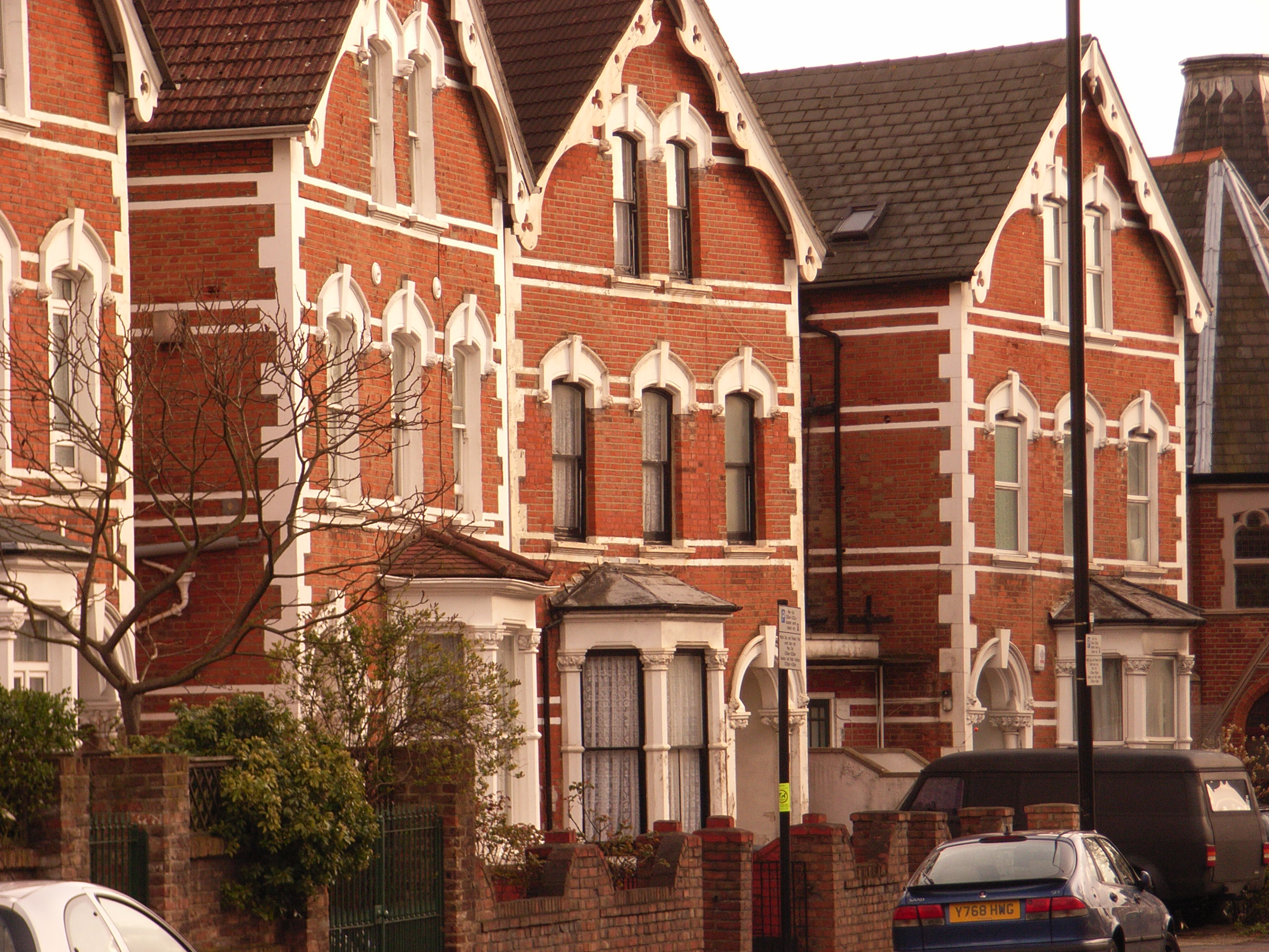 Houses on Stapleton Hall Road, Stroud Green, London, N4.